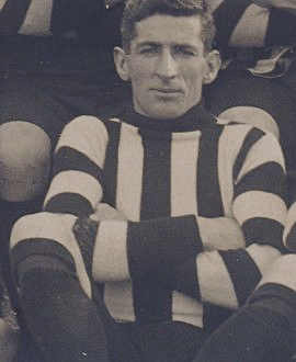 Photo of Percy Gibb from 1905-1914